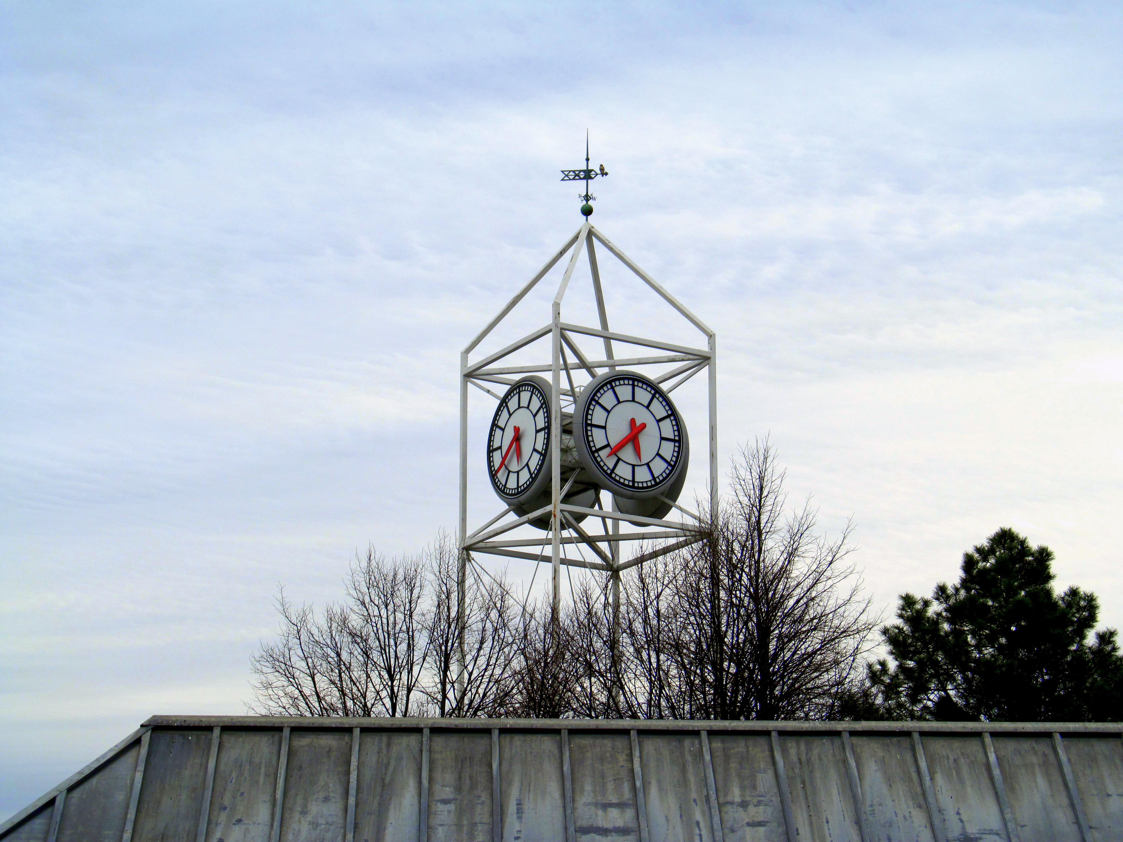 Clock tower at the Forest Hills MBTA station as viewed from the 39 bus loop.